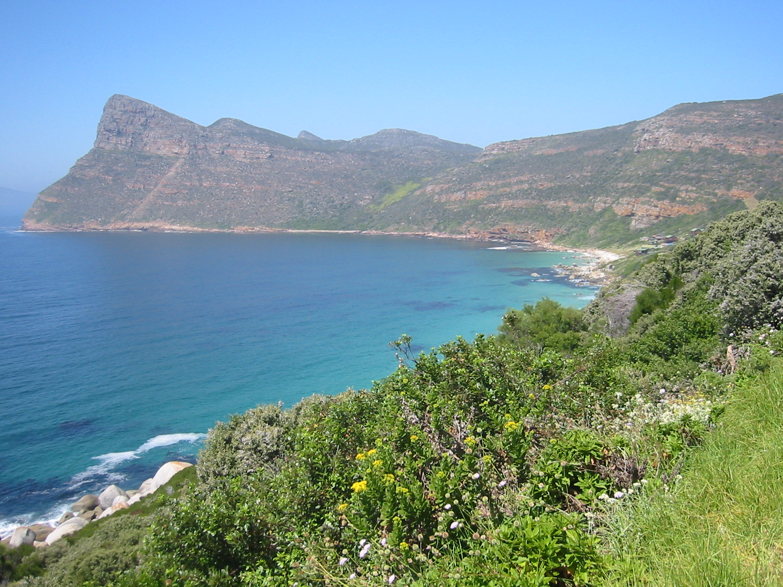 Judas Peak (319 m) of The Farmer (mountain) in the Cape Point Nature Reserve, with the houses of Smitswinkel Bay in False Bay visible in the Smitswinkel Valley (far right and just outside the reserve), Cape Peninsula, Western Cape